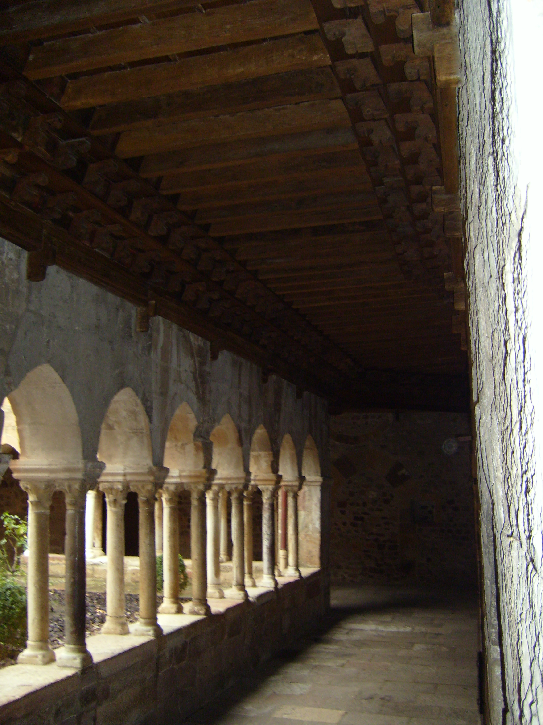 Cloister of Frejus Cathedral with Medieval Wooden Ceiling